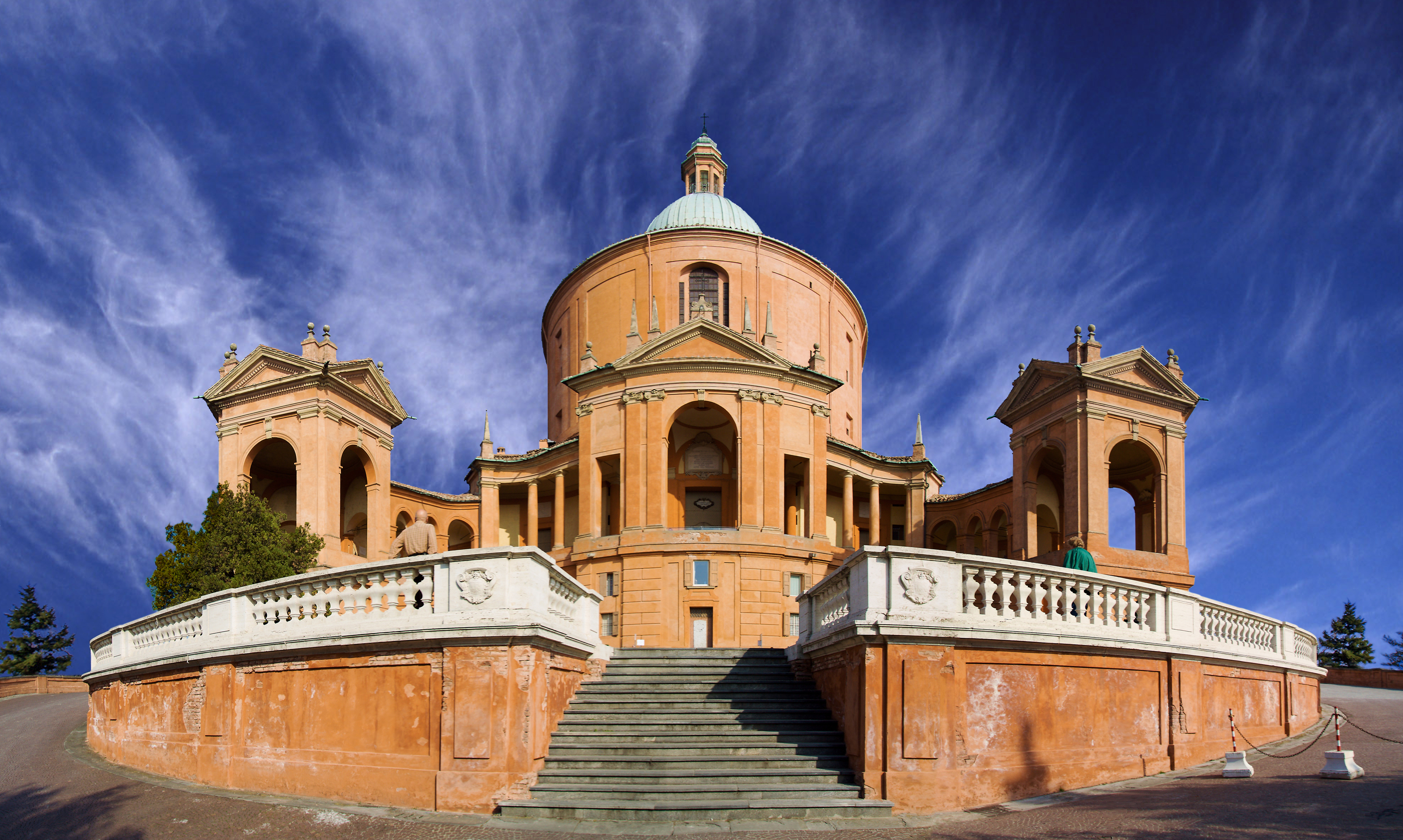 Il portico consta di 666 archi e 15 cappelle: con i suoi 3,796 km pare essere il portico più lungo al mondo. Il tratto in pianura, che va dall'Arco Bonaccorsi (antistante porta Saragozza) fino a quello del Meloncello, è composto da 316 arcate ed è lungo 1,52 km. Il tratto collinare, dal Meloncello al Santuario, è composto da 350 arcate, fra cui 15 cappelle con i Misteri del Rosario, poste a cadenza regolare (circa ogni 20 a archi) ed è lungo 2,276 km.